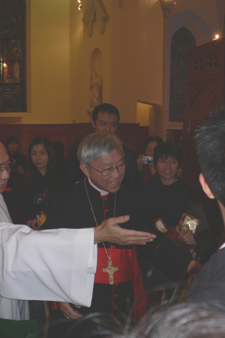 Cardinal Zen giving Christmas presents to Mainland students who were visiting